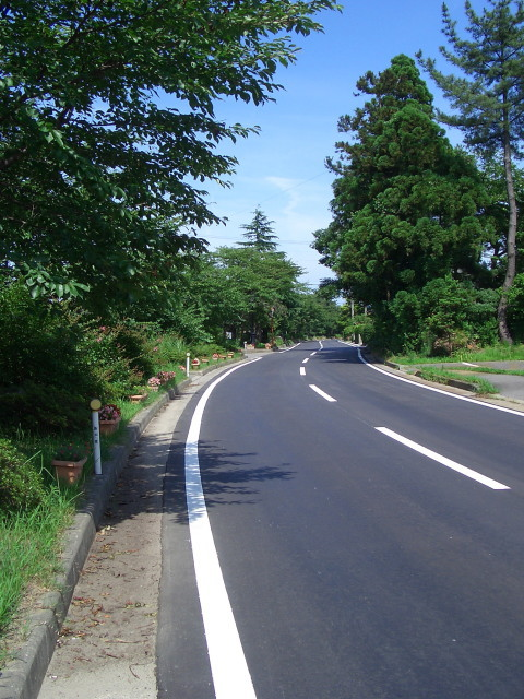 A road in Niigata, Japan